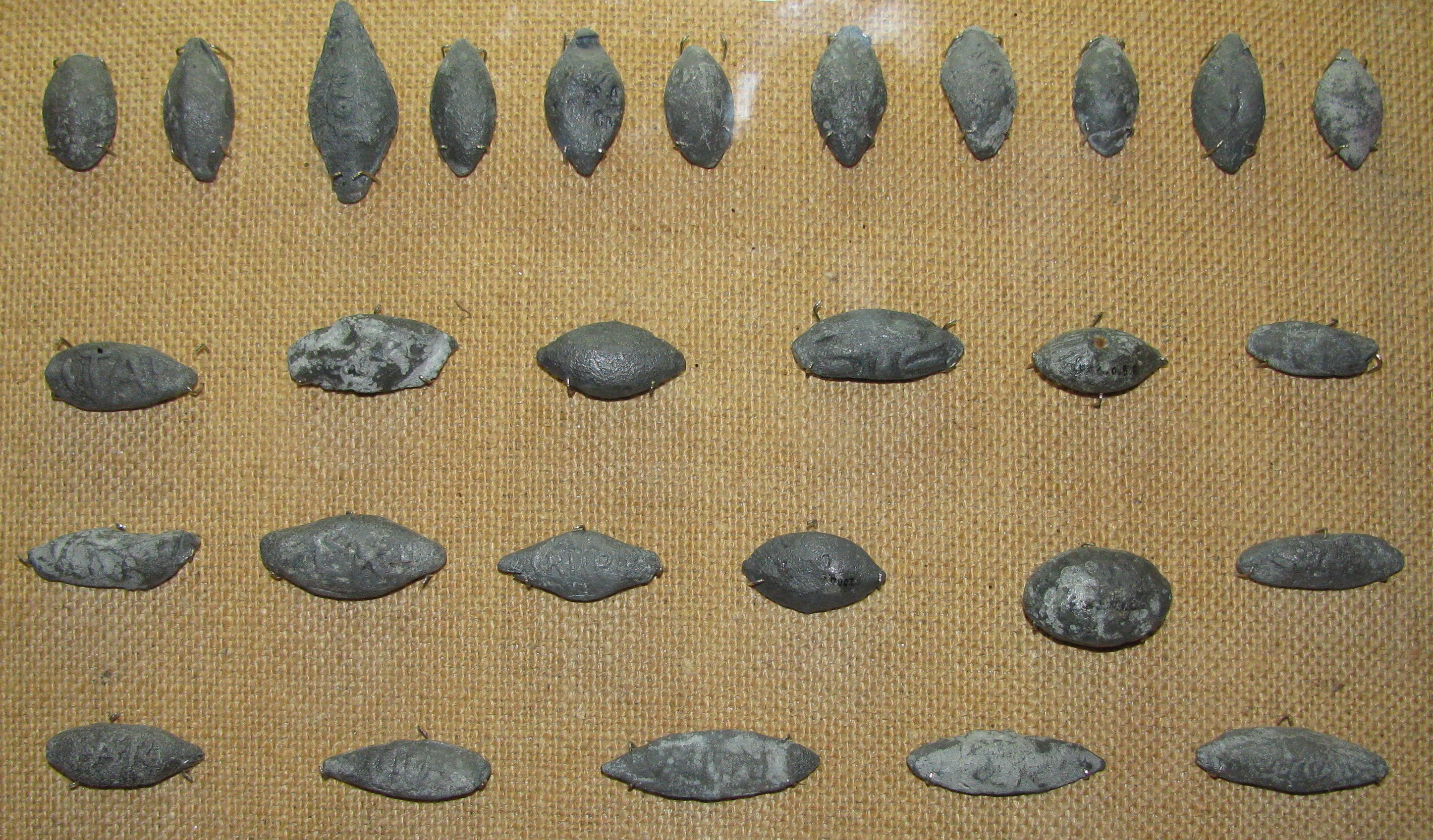 Sling bullets. Lead, 2nd century AD. From Lyon.